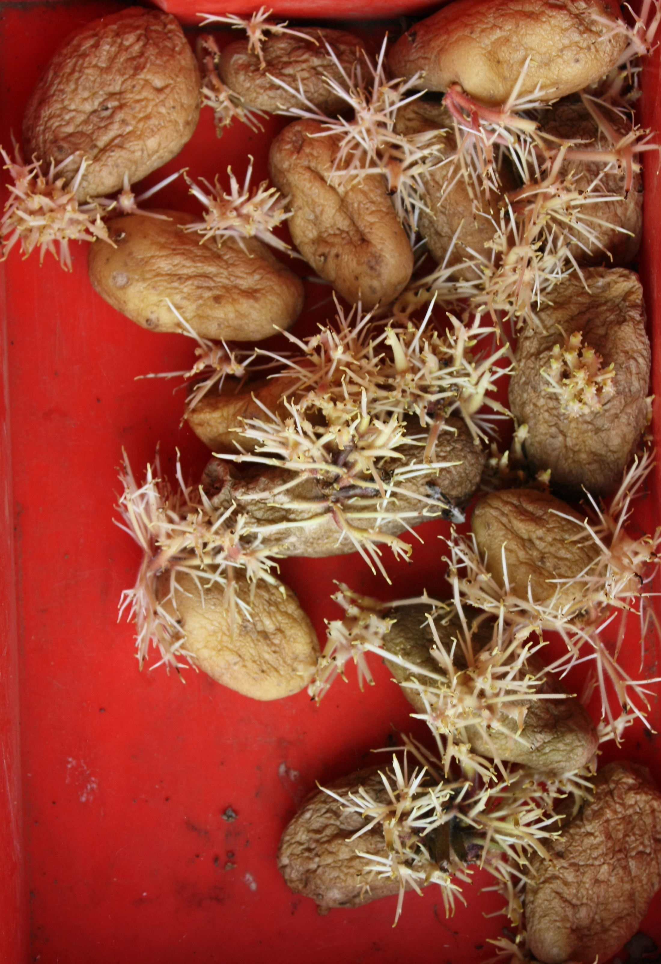 Wrongly stored potatoes with sprouts